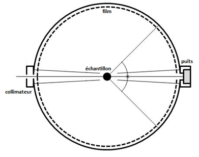 Scheme of a Debye-Scherrer camera viewed from above. The powder sample is placed in a capillary at the center of the camera. The diffracted X-rays are recorded on a photographic film placed circularly around the sample.